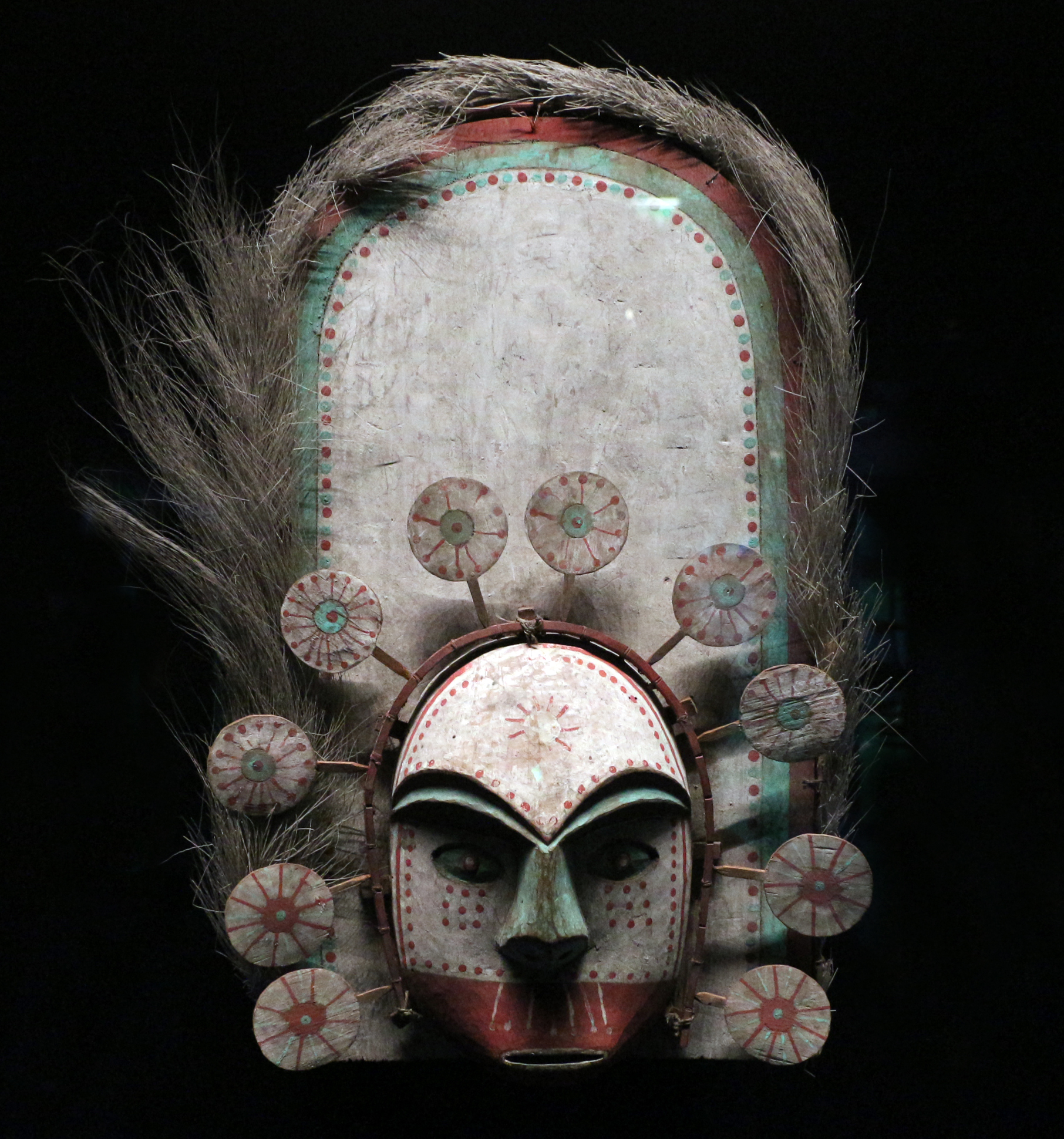 American art in the Musée du quai Branly